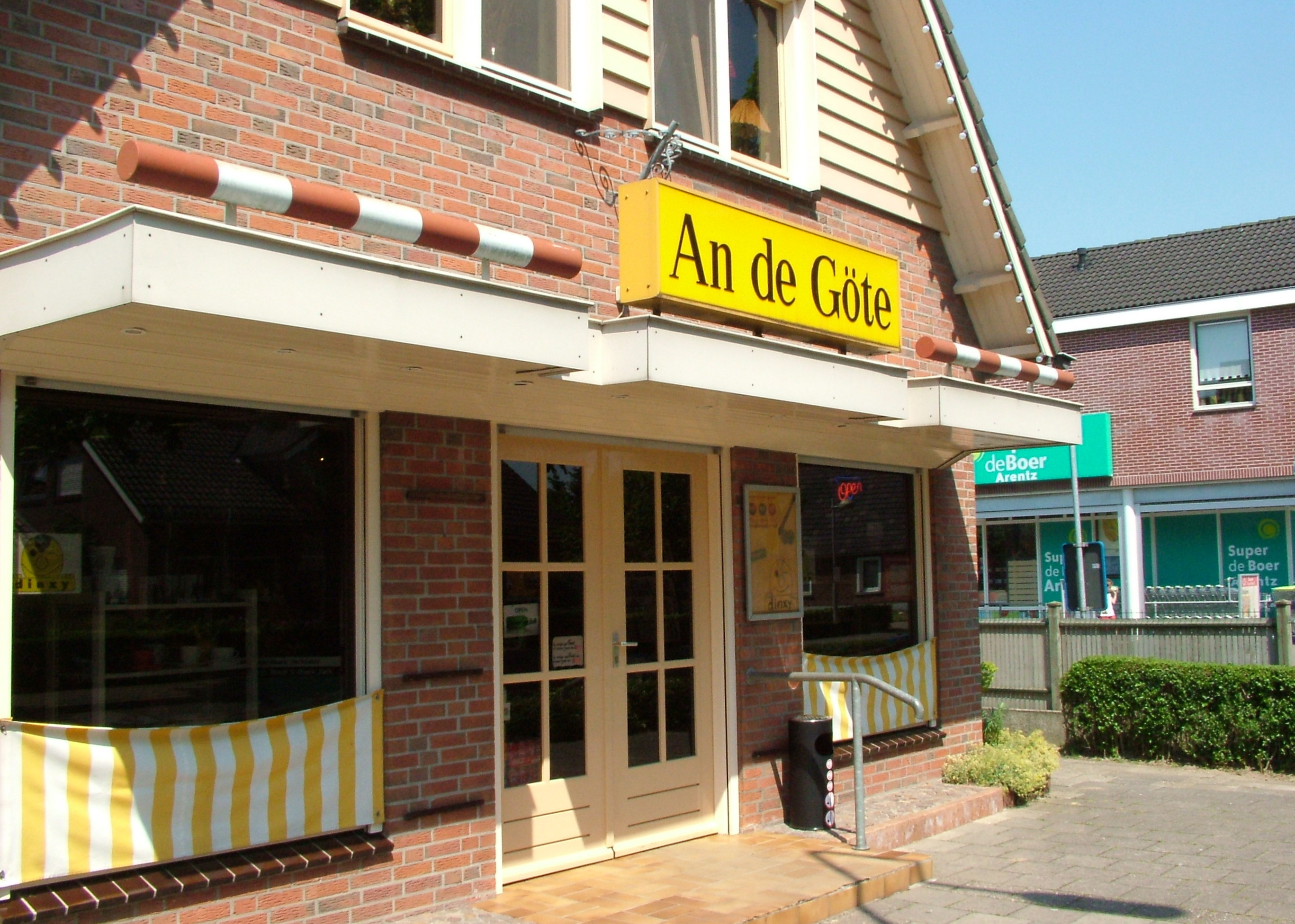 Shop with name in (Dutch) Low Saxon: An de Göte, at Heelweg in Dinxperlo.